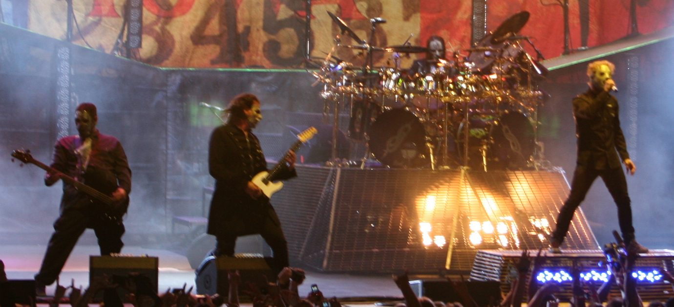 Slipknot at the mayhem festival 2008.